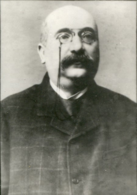 Photograph of Jaša Tomić (1856-1922), Serbian journalist, politician and writer (ca. 1920). Srpski (latinica): Fotografija Jaše Tomića (1856-1922), novinara, političara i književnika (oko 1920).